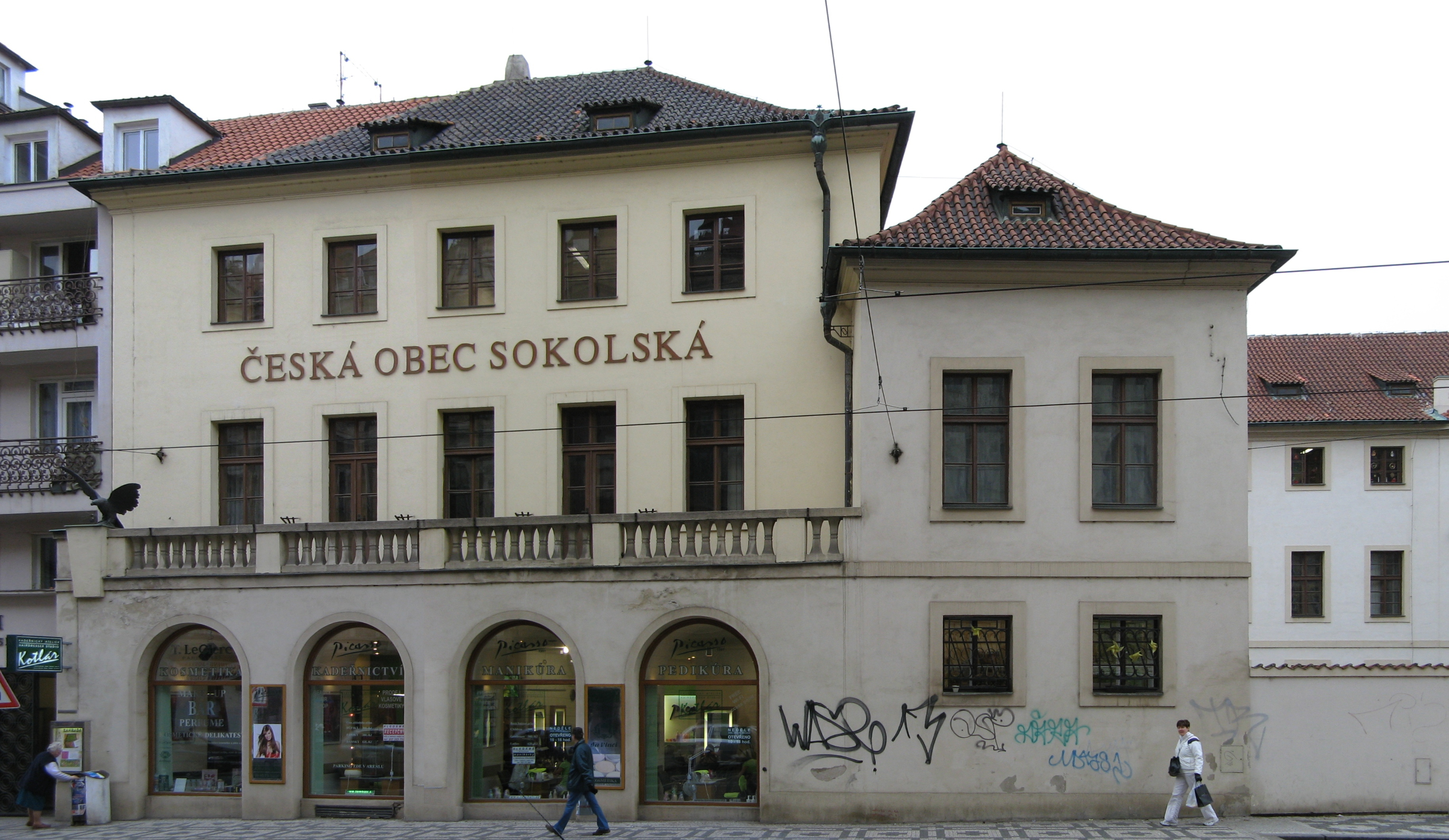 Tyršův dům, Prague